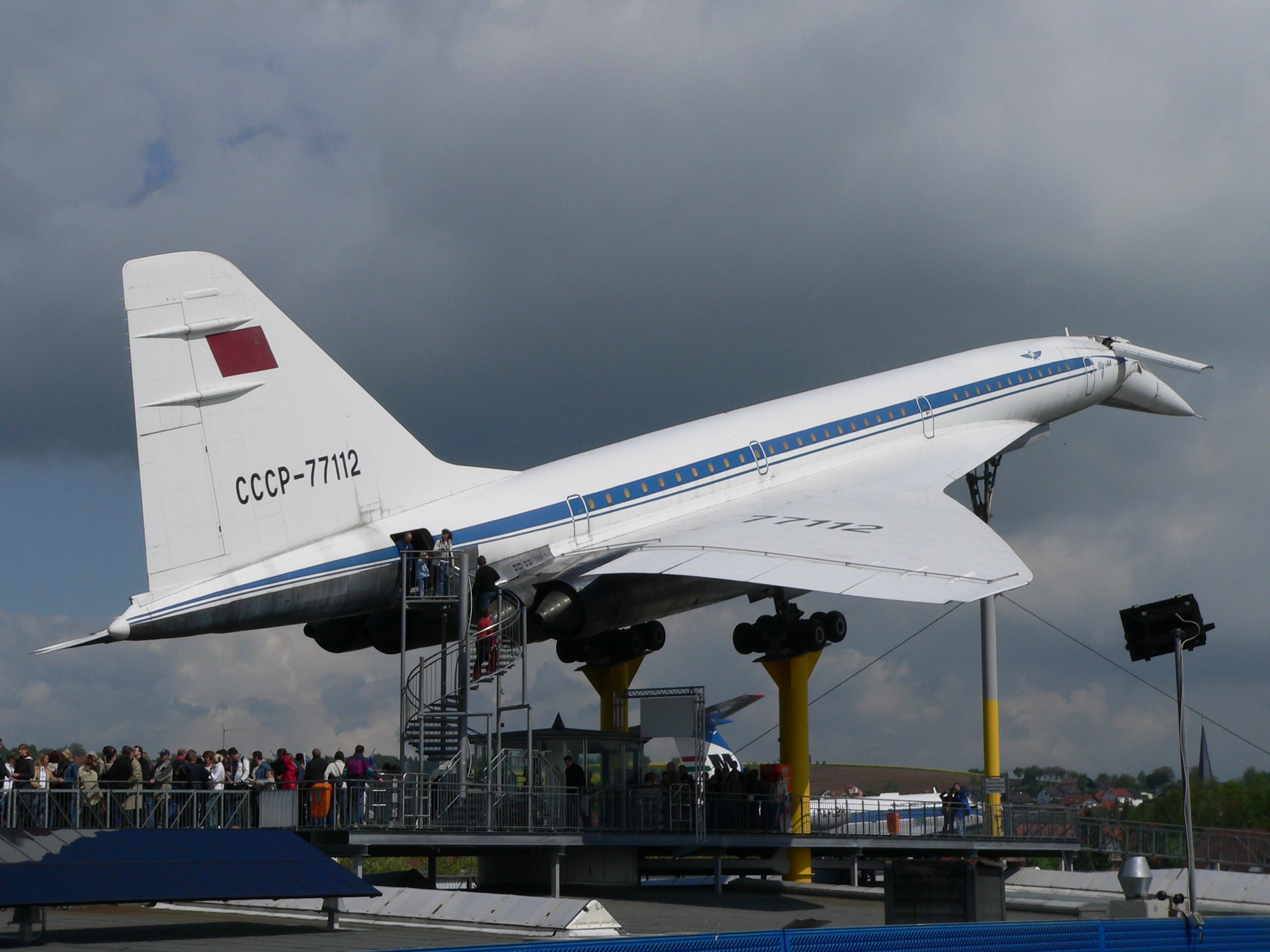 Tupolew Tu-144 displayed at the Museum Sinsheim, Germany